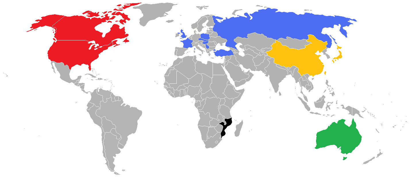 Women's basketball - universiade 2009 - teams